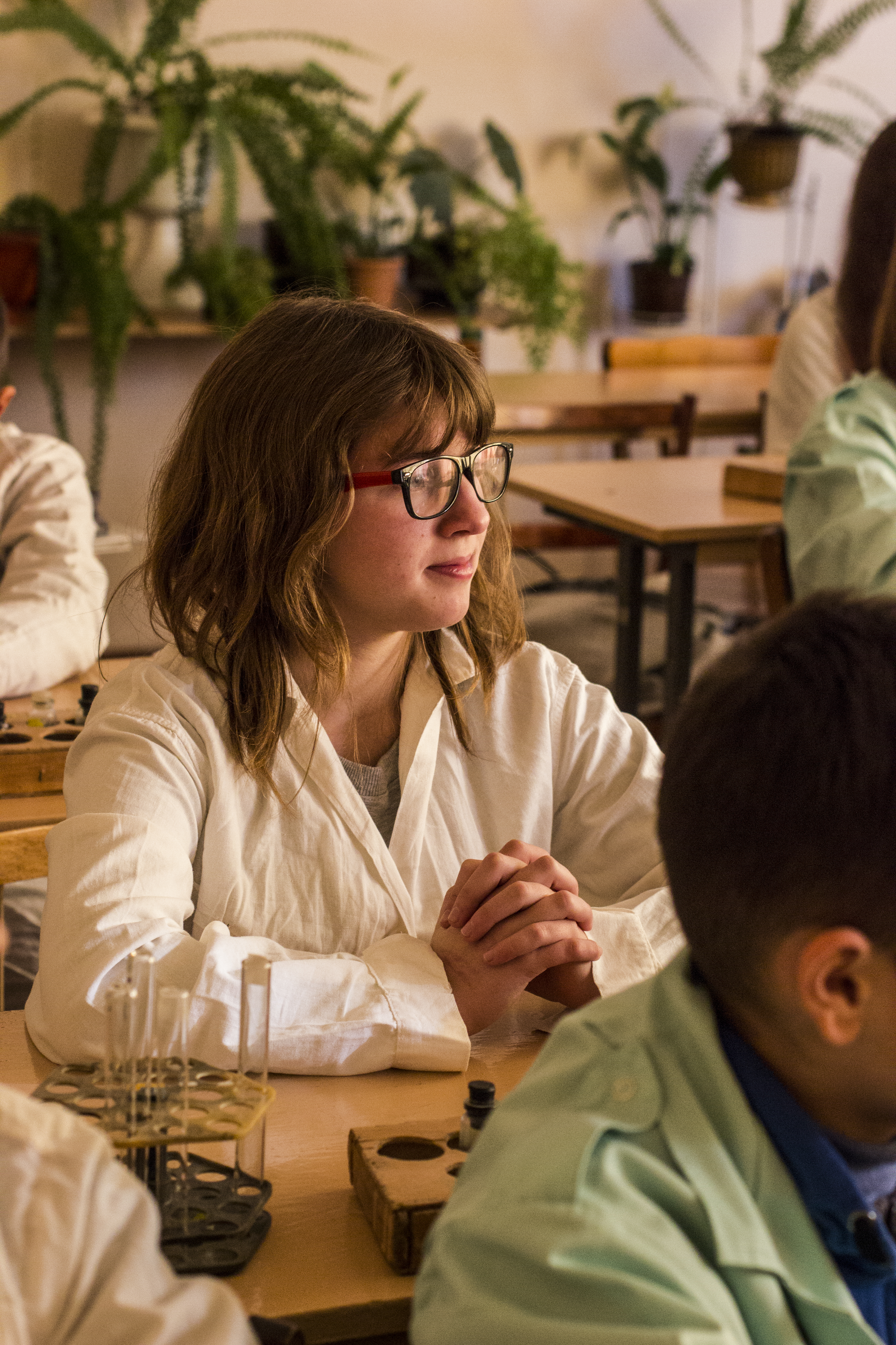 Physical and chemical phenomena. Chemical reactions and phenomena.